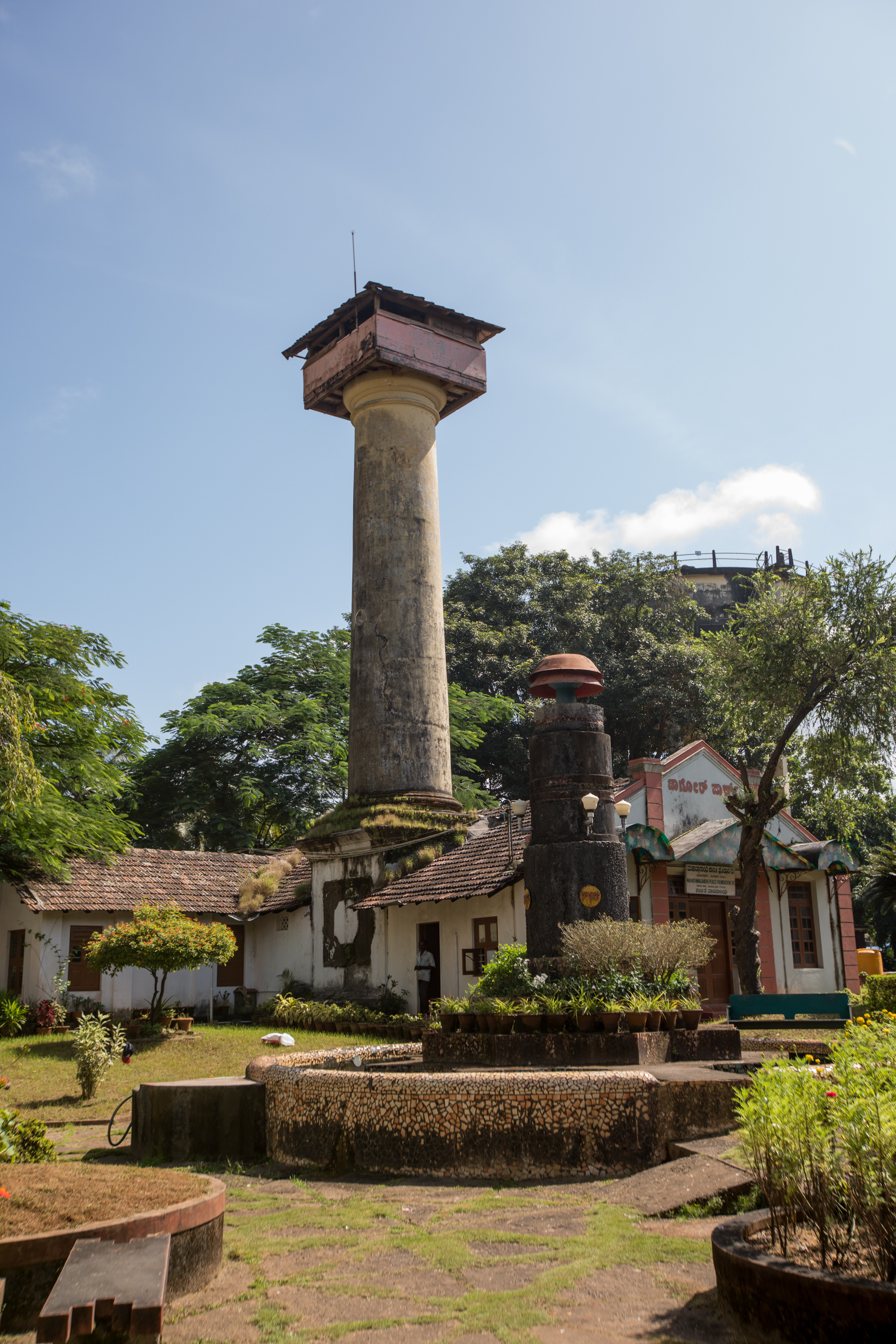 Light House at Tagore park